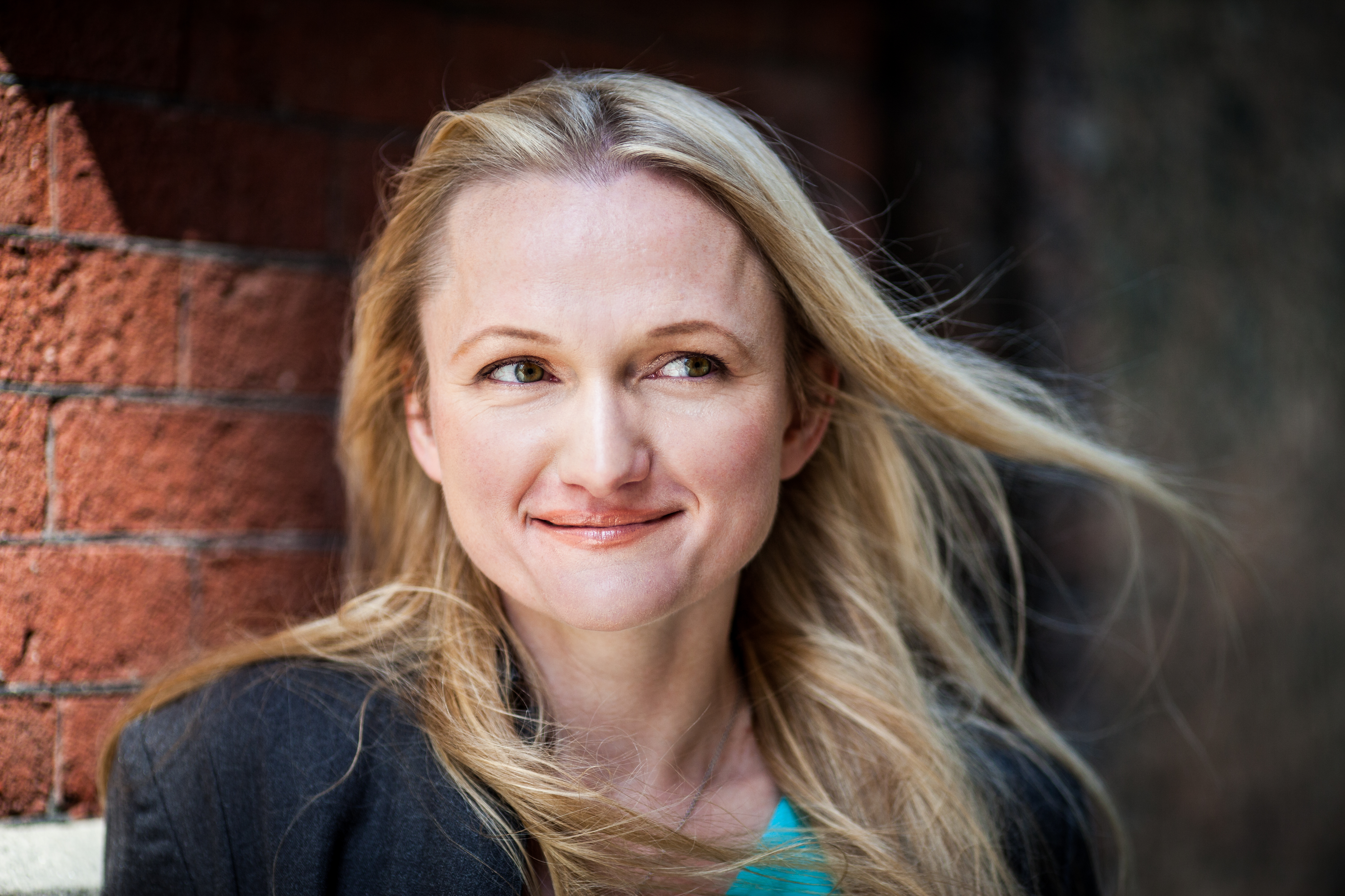 Photo of incoming WMF Executive Director Lila Tretikov.